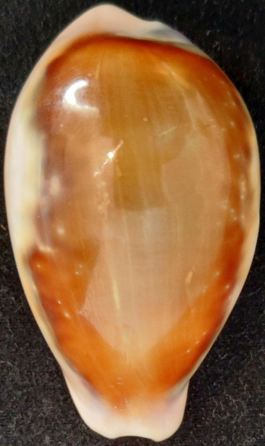 Neobernaya Spadicea Back